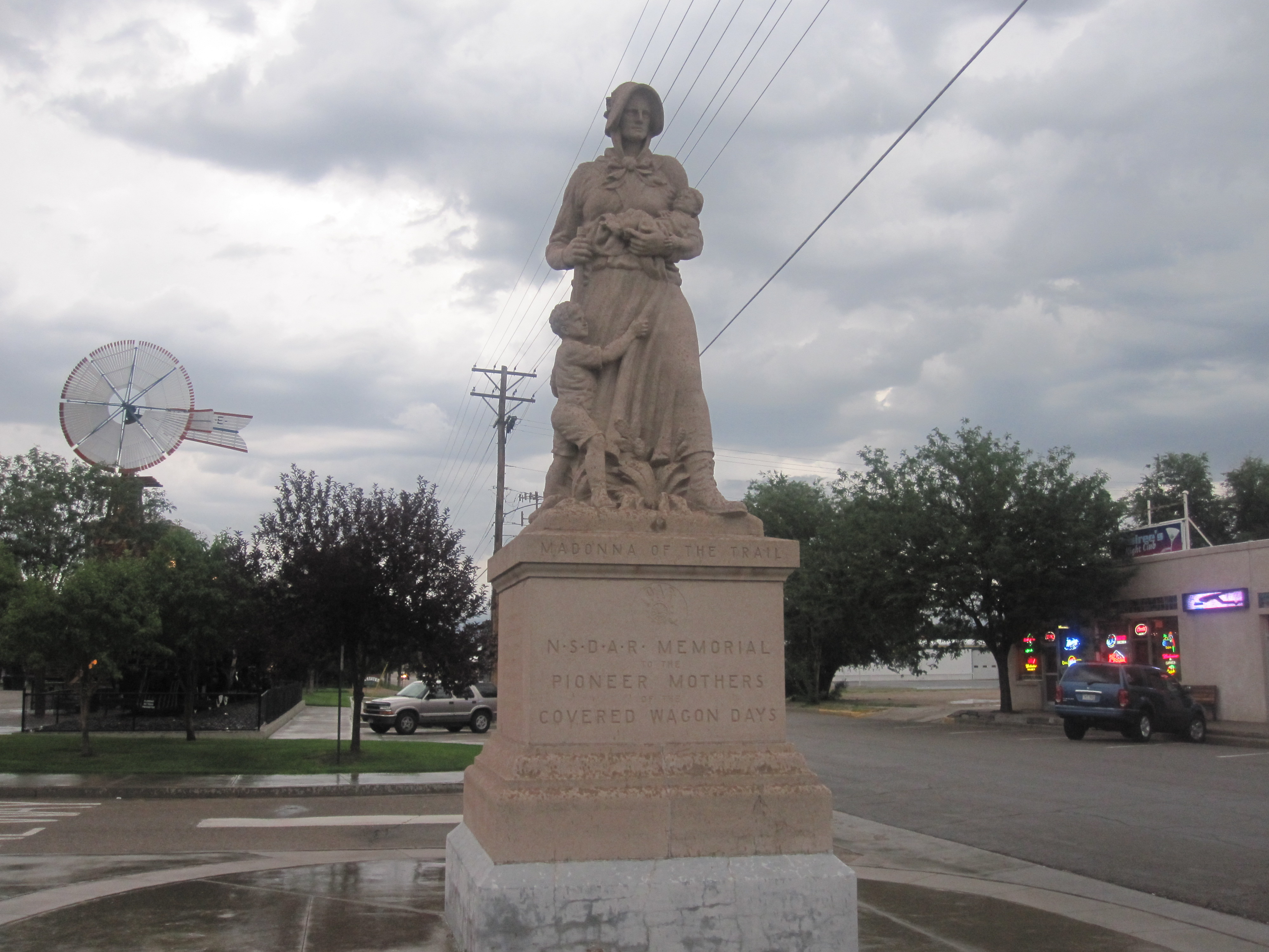 I took photo in Lamar, CO, with Canon camera.